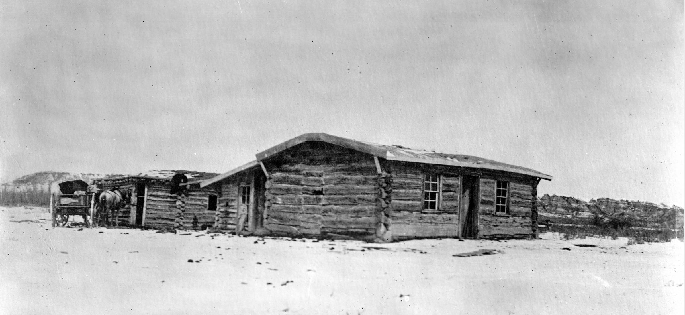 Theodore Roosevelt's Ranch in North Dakota. Two log buildings with horse and wagon on the side of the rear building.